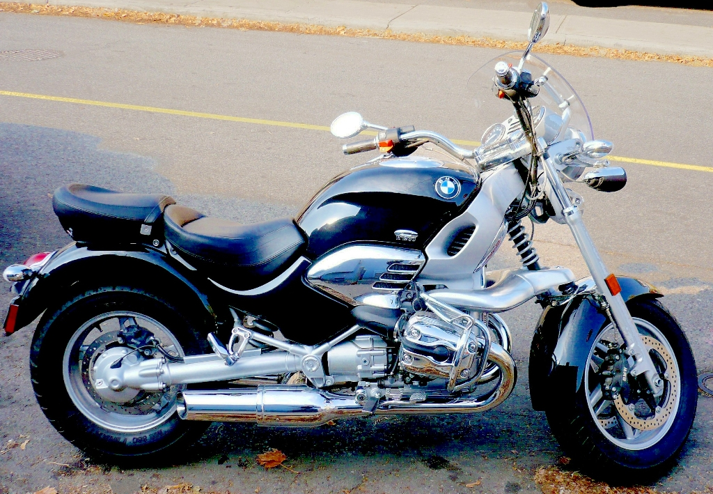 BMW R1200C cruiser. Photographers comments - It's cool but the little snow that we had in early November disappeared pretty quick. I'm still seeing motorcyclists on the road (the hardy riders) although it is late in the season for Ontario. I was intrigued by the front stabilizer arm, a feature that I had never noticed before.